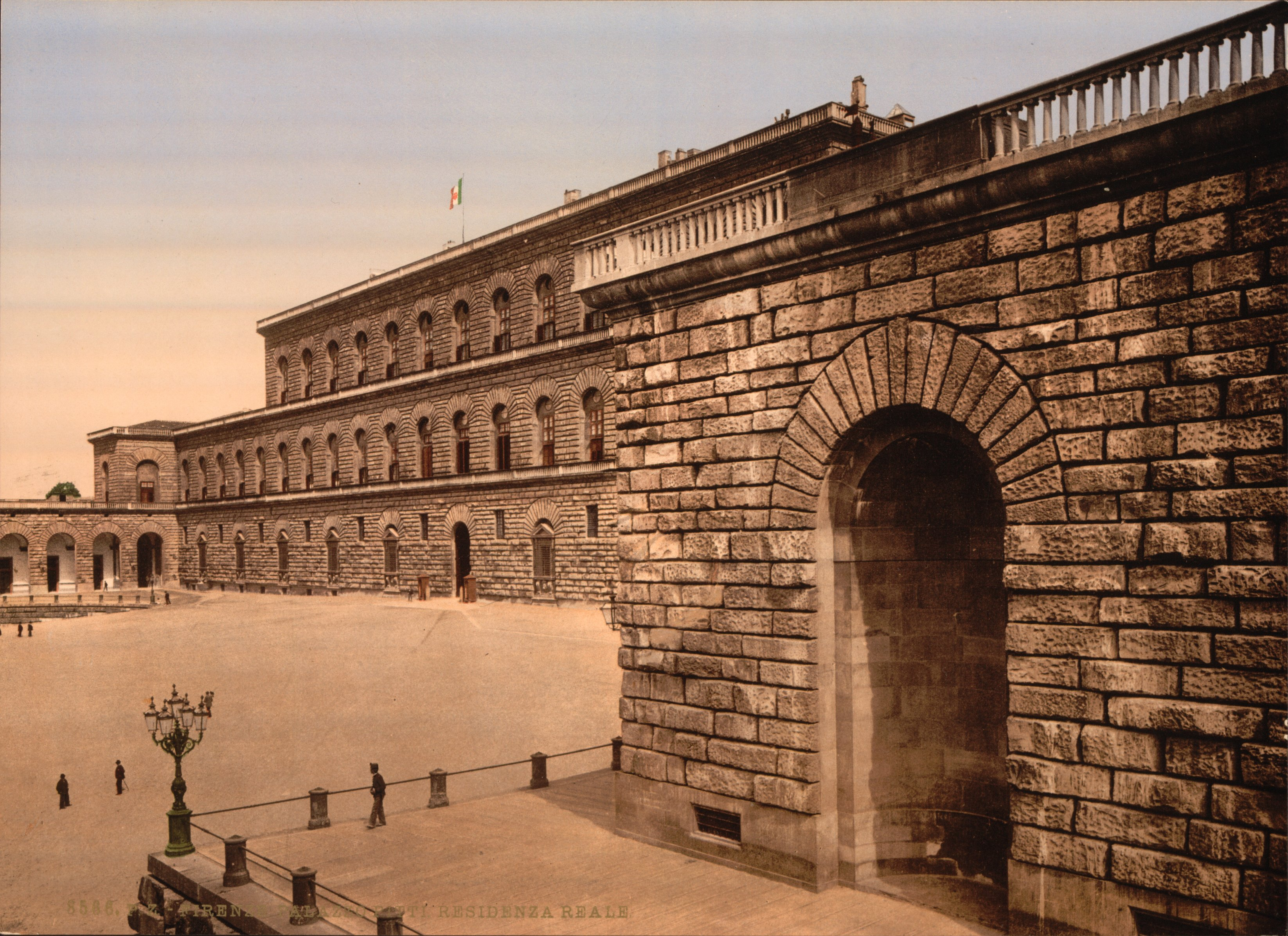 Photochrome (Photochrom) print, by Photoglob Zuerich, of Pitti Palace, Royal residence, Florence, Italy. Over 100 years old